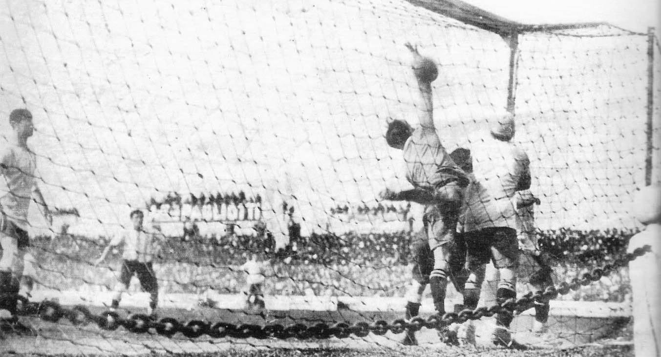 The goal scored by Argentine footballer Cesáreo Onzari in a friendly match against Uruguay, known since then as "Gol Olímpico" ("Olimpic Goal"). That game was played in the Sportivo Barracas stadium in 1924.